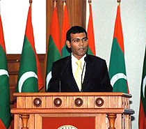 Mohamed Nasheed, President of the Maldives